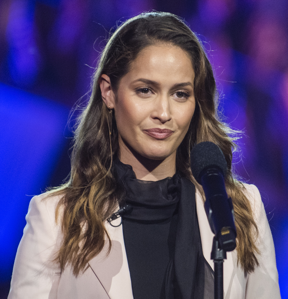 Actress Jaina Lee Ortiz performs on stage during the National Memorial Day Concert on the west lawn of the U.S. Capitol, Washington, D.C., May 26, 2019. The concert’s mission is to unite the country in remembrance and appreciation of the fallen and to serve those who are grieving. (DOD photo by U.S. Navy Petty Officer 1st Class Dominique A. Pineiro)